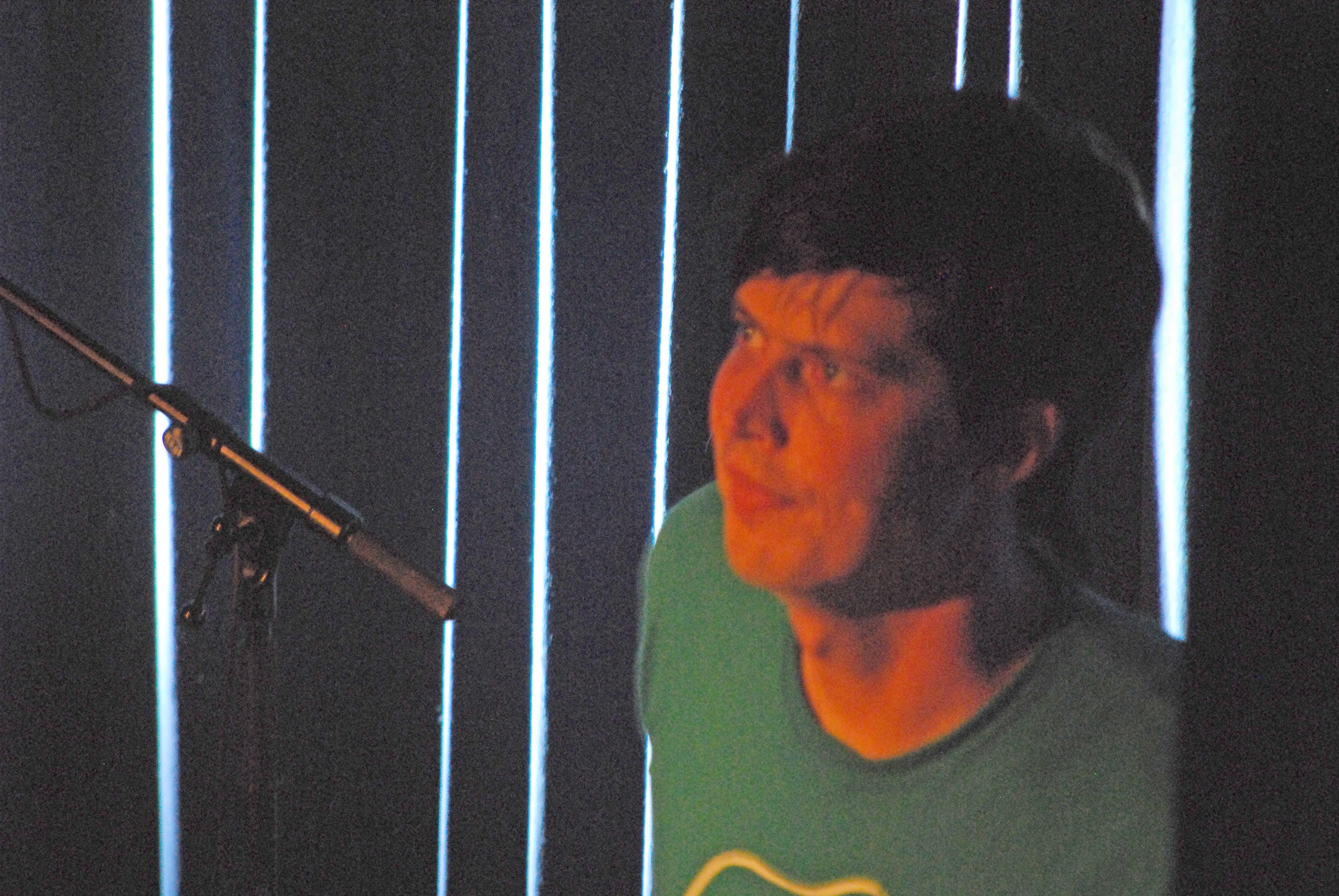 Ches Smith at a concert with Marc Ribot and Ceramic Dog, Innsbruck 2009